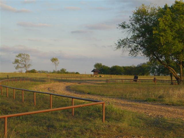 A view of Parkhill Prairie, Collin County TX, from the northern pavillion looking East.